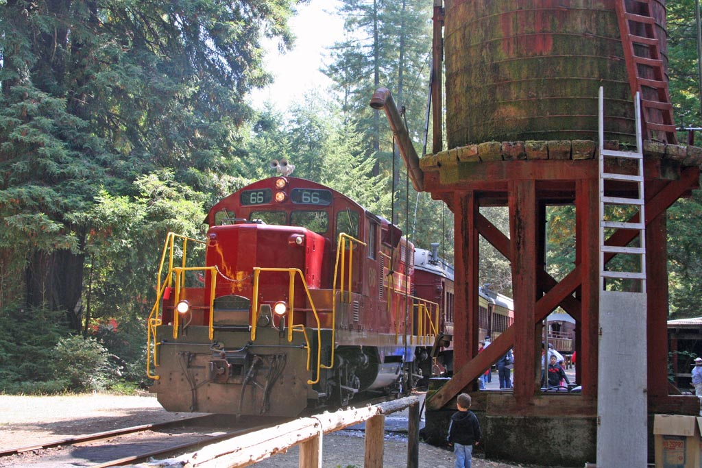 The Skunk Train at the Northspur Tank in August 2005